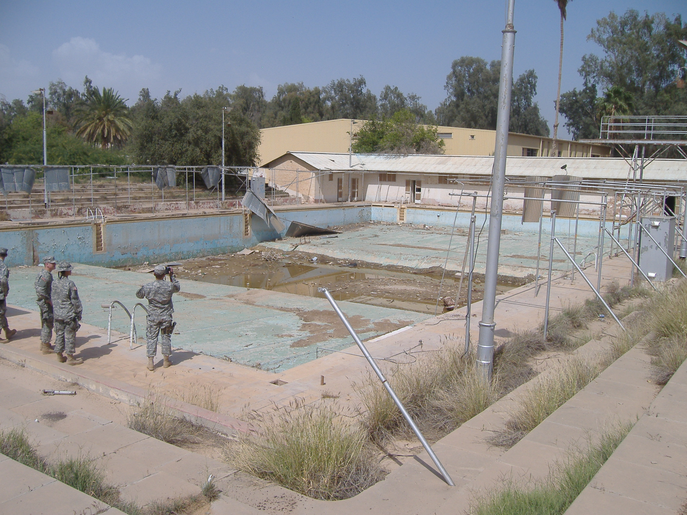 View of RAF Habbaniyah Olympic size pool in May 2007